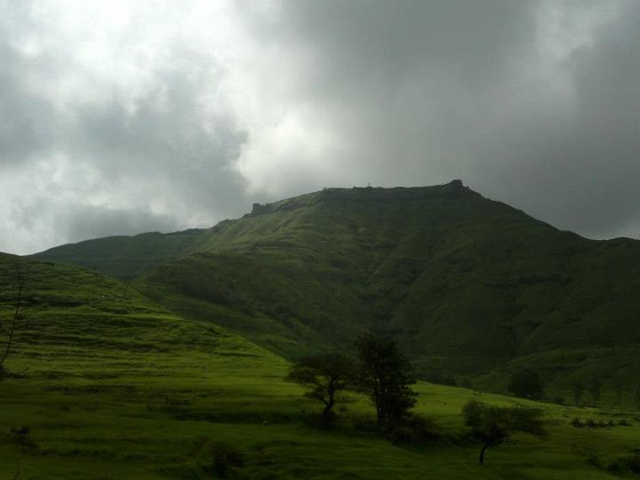 Rohida fort as seen from base